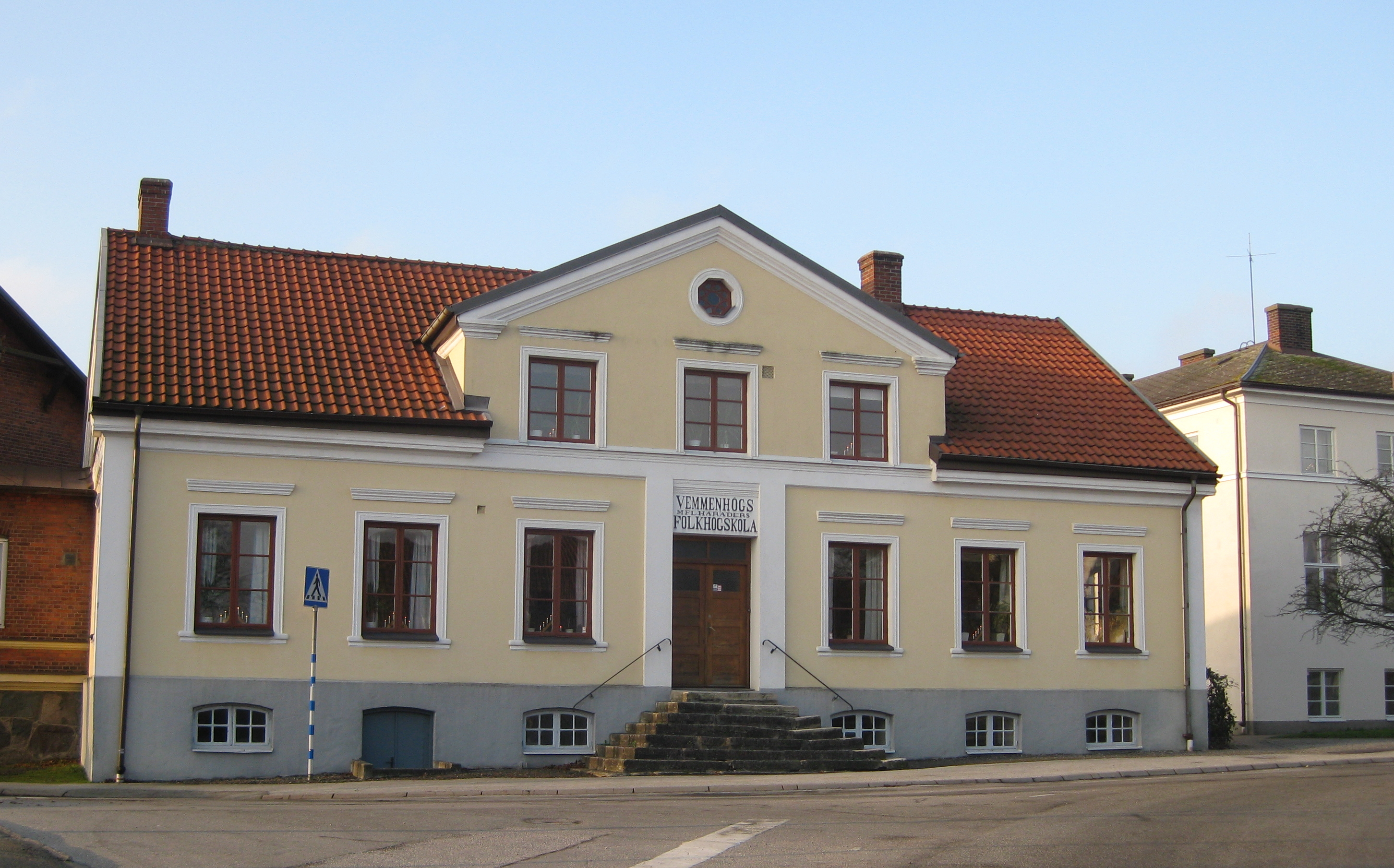 Skurup folk high school, in Skurup, Scania, Sweden